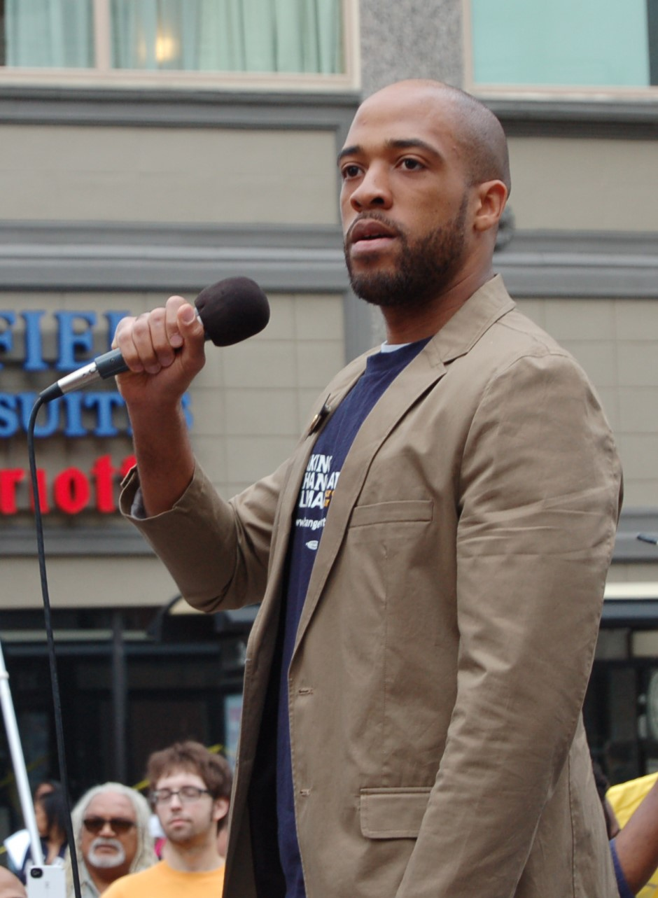 Mandela Barnes in 2013